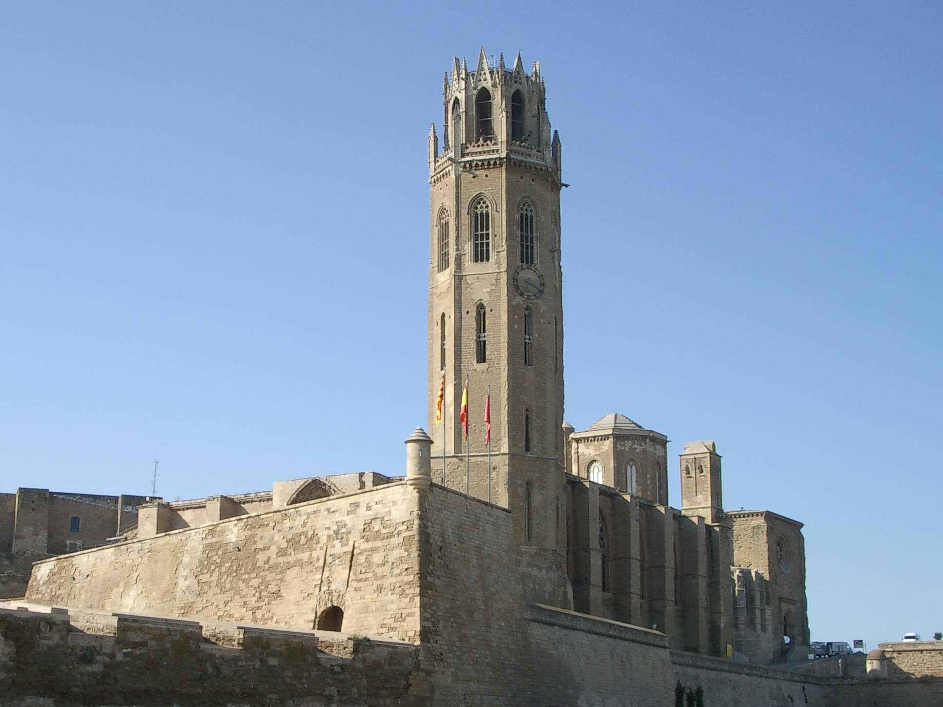 La Seu Vella de Lleida